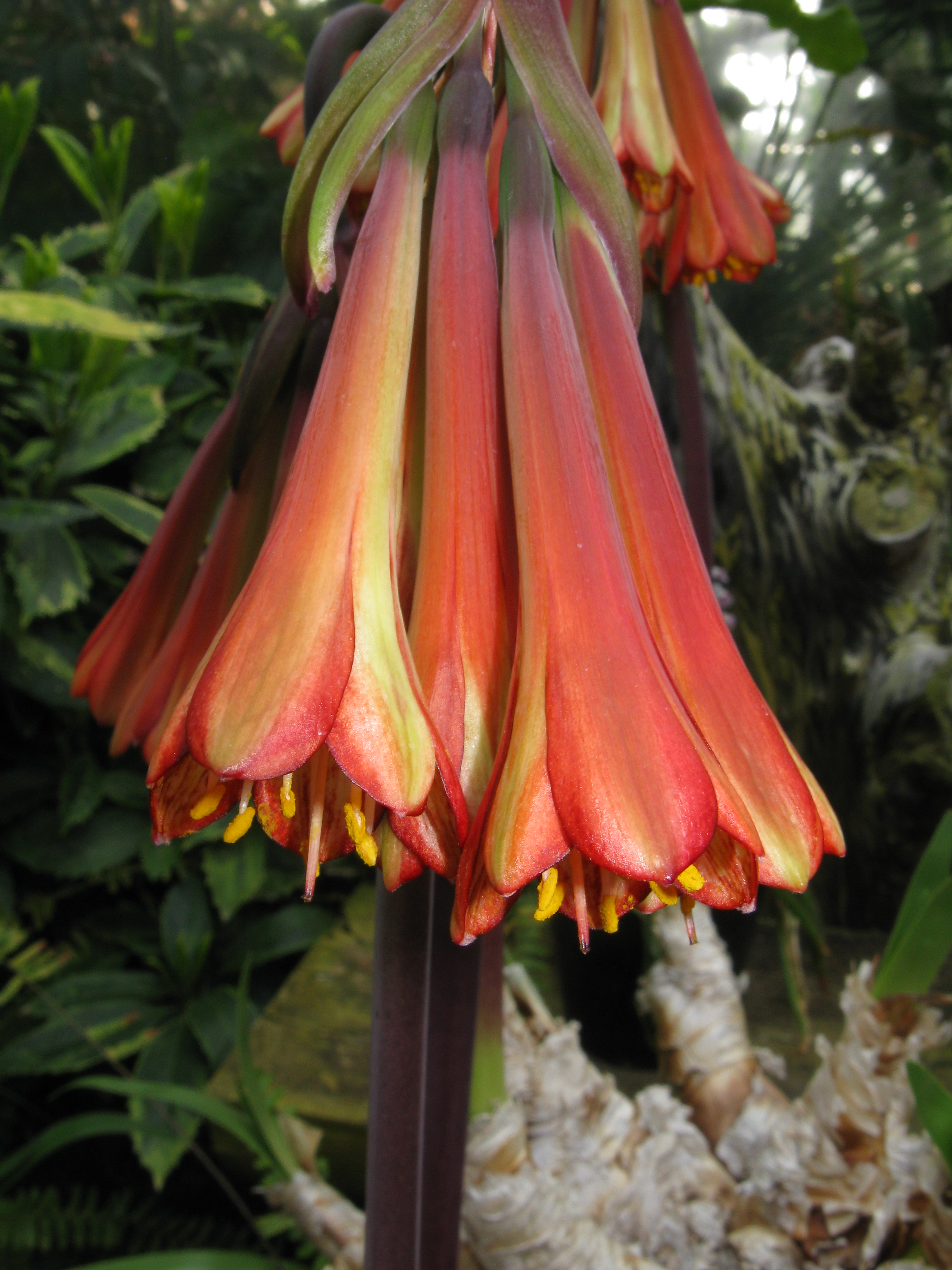 Scientific name Cyrtanthus falcatus Place:Osaka Prefectural Flower Garden,Osaka,Japan